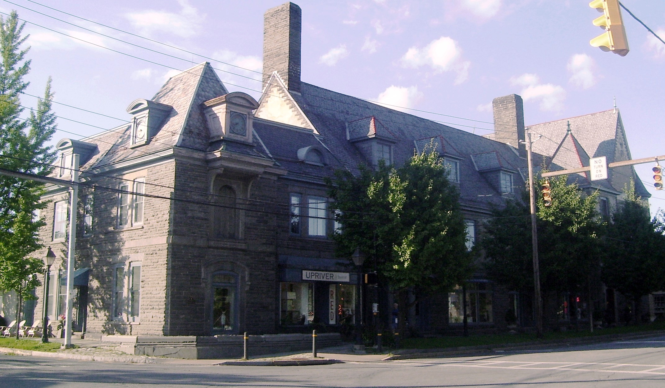 Forest Hall, on the corner of Broad and Harford Streets in Milford, Pennsylvania. The original building was designed by Calvert Vaux in 1863 for James Pinchot, and was used as the Post Office. In 1904, Richard Morris Hunt expanded the building for Pinchot. It was used by Yale Universiy's School of Forestry for many years. The expanded building had a lecture hall, gynmansium and auditorium. The building is now used for retail shops. It is located within the Milford Historic District. (Source: 2011 Guide to Pike County Pennsylvania)